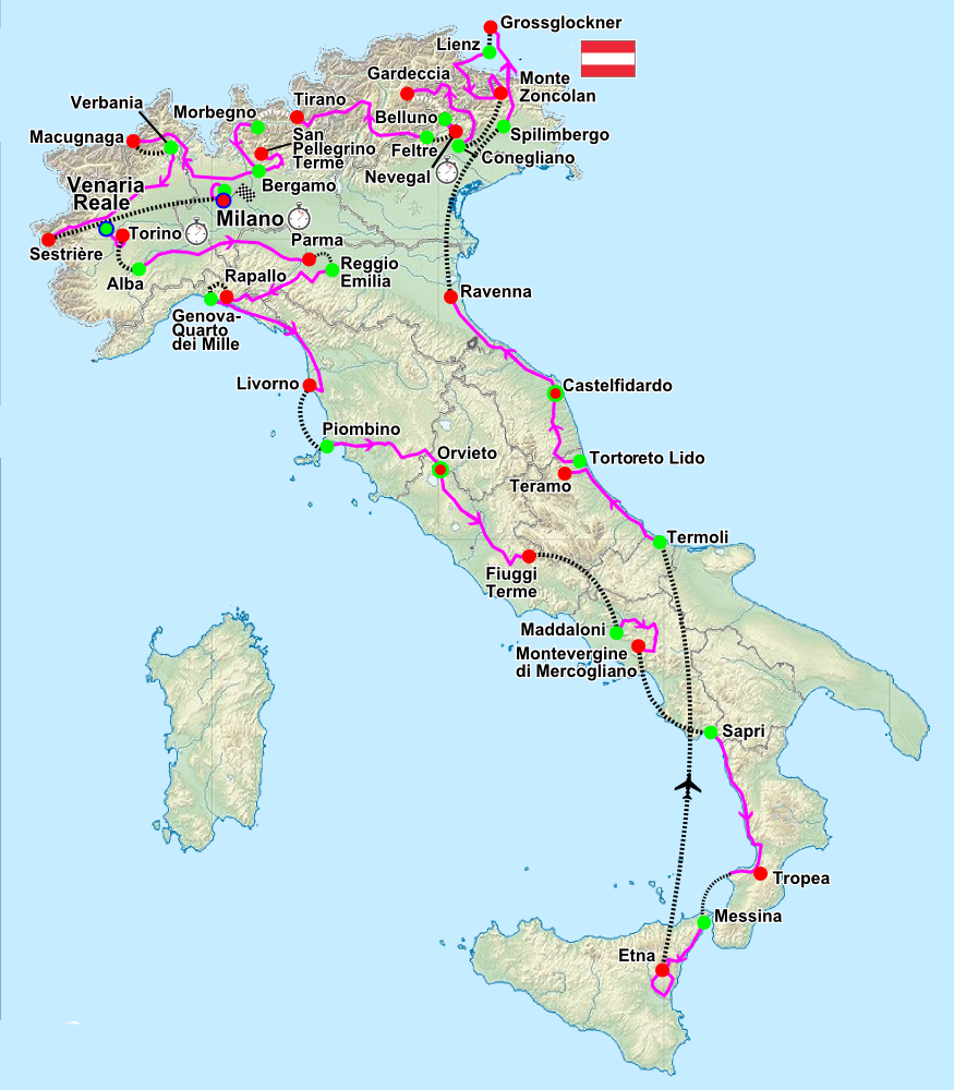 Map Giro d'Italia 2012